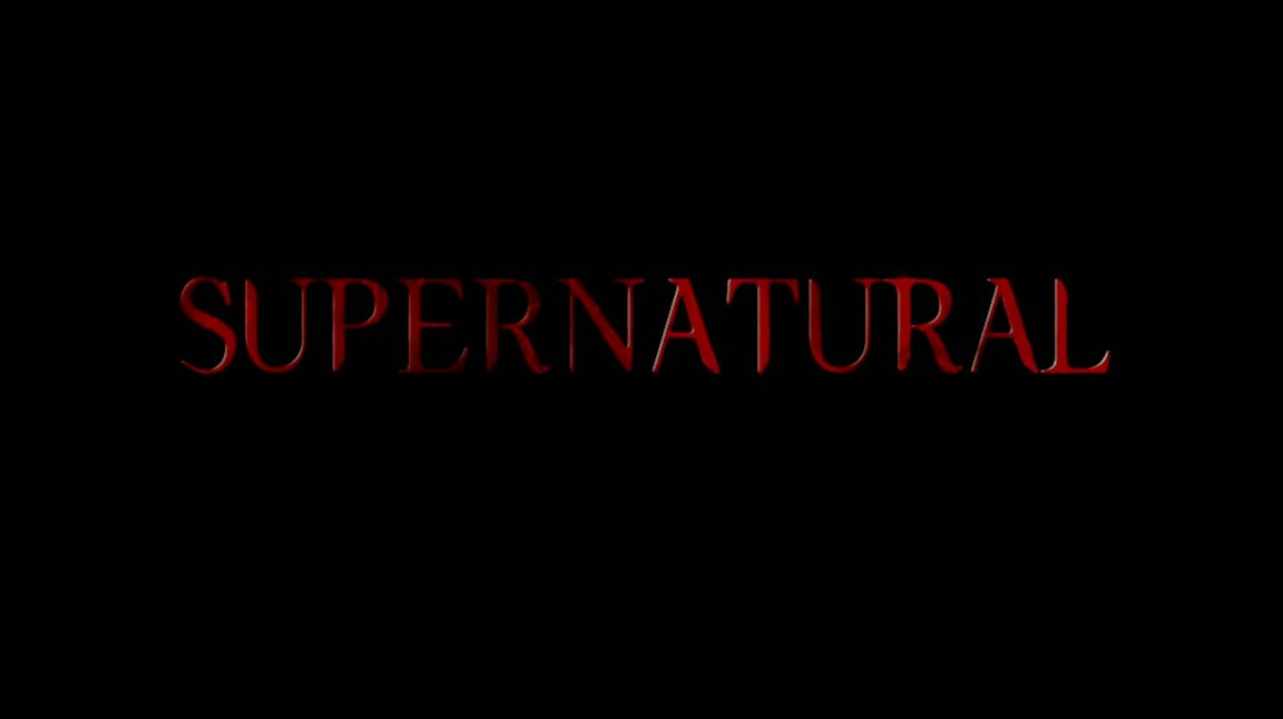 Season 4 title card of Supernatural TV series.